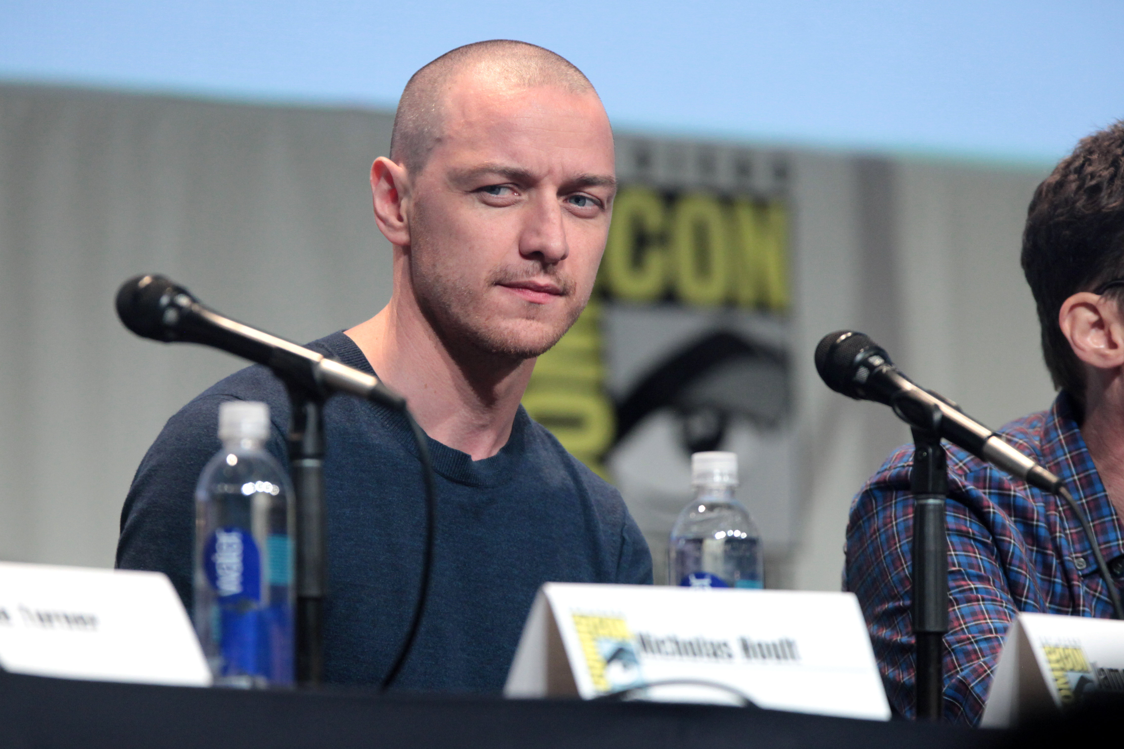 James McAvoy speaking at the 2015 San Diego Comic Con International, for "X-Men: Apocalypse", at the San Diego Convention Center in San Diego, California.